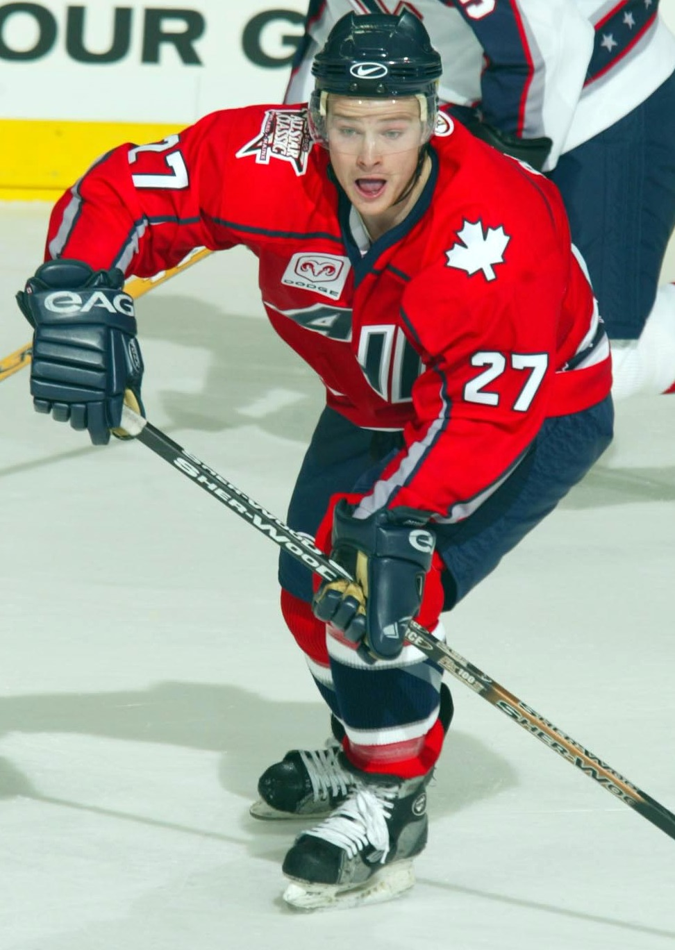 Photo: Jason Pulver/AHL